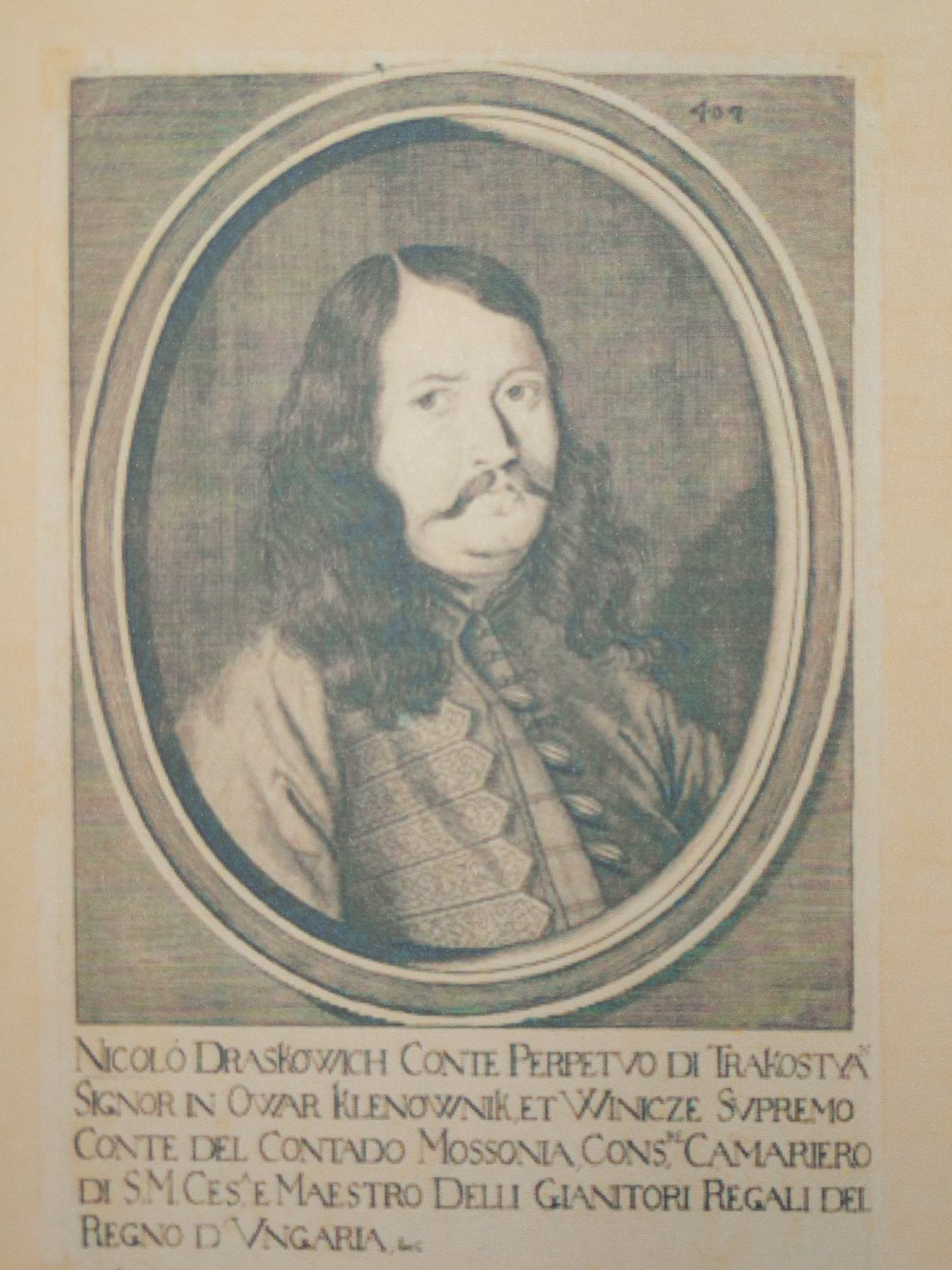 Nikola (Nicholas) II Drašković Trakošćanski (Drashkovich of Trakostjan) (*c.1625 - †1687), Count of Trakošćan, Croatian nobleman, royal counsellor